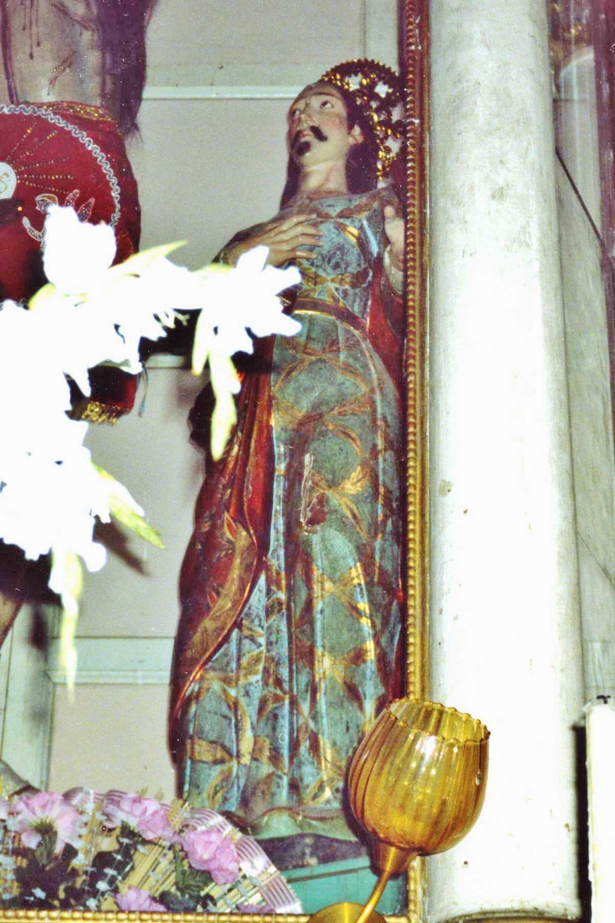 San Juan Evangelista, in the church of Santo Domingo Ocotlán, Oaxaca, Mexico, in the Calvary grouping at the far end of the chapel of El Señor de la Sacristía